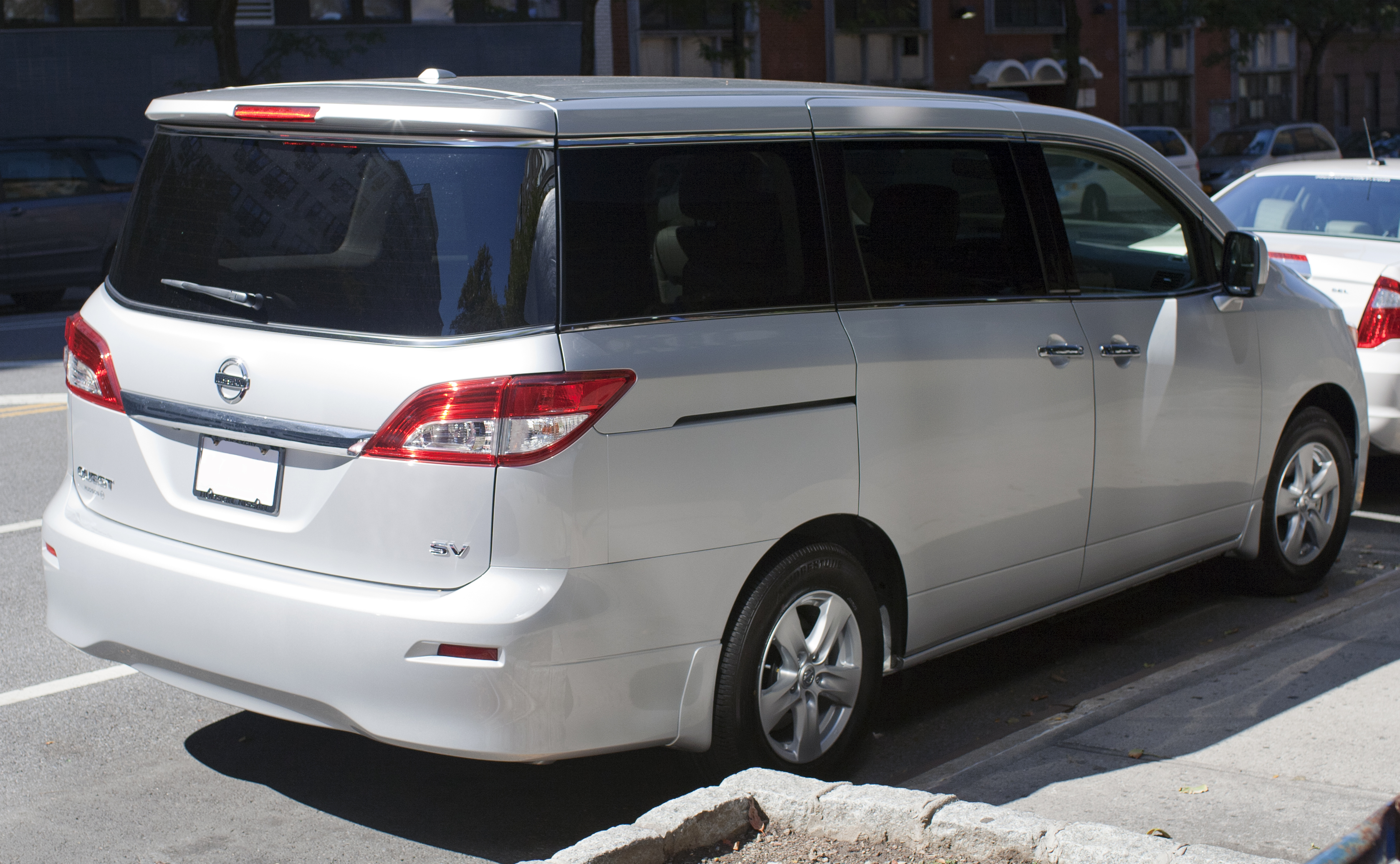 Rear view of 2012 Nissan Quest SV